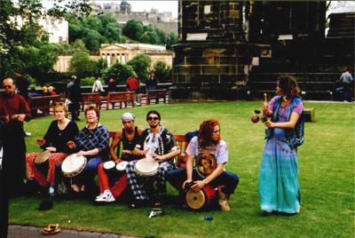 Playing the Drums, Scene at the Edinburgh Fringe Festival. Photo was taken by Andreas Seidl in August 1999.